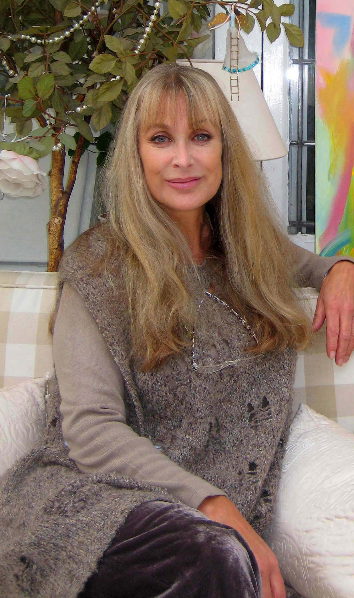 A picture of actress Carol Royle at her home.